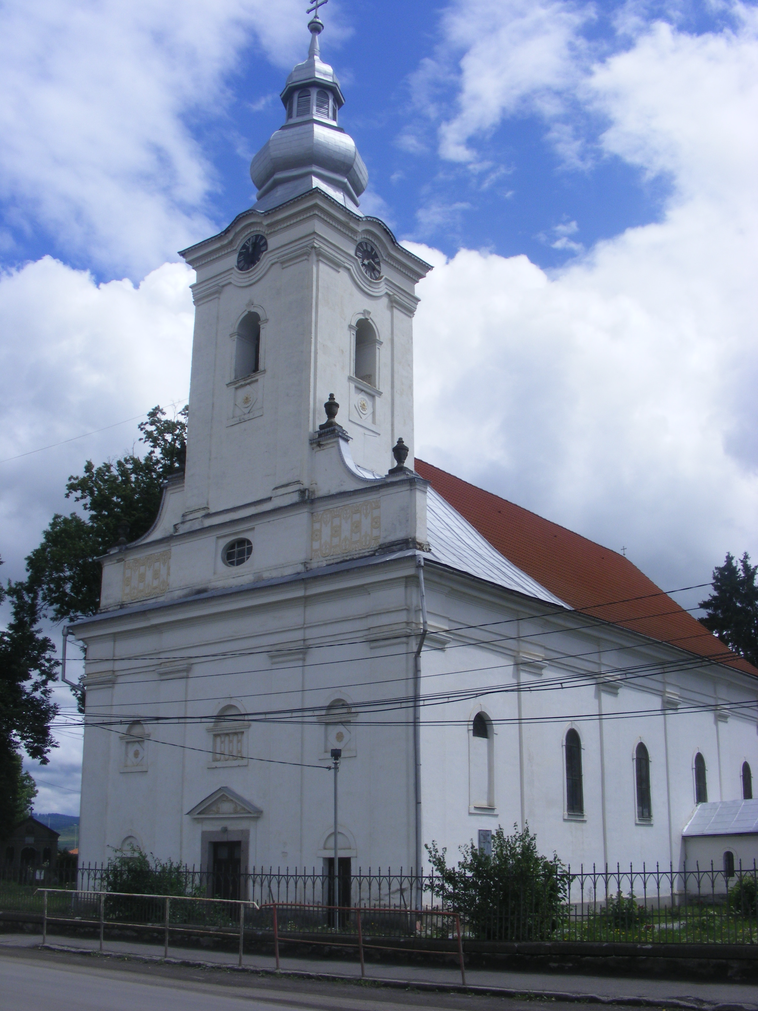 the romano-catholic church in Csíktaploca, Transsilvany.